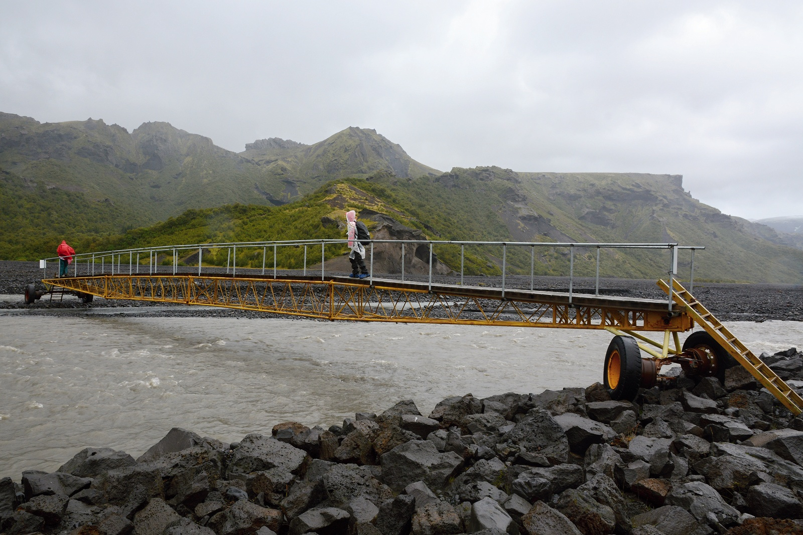 The bridge over the Crosa river. Iceland Thorsmork area. Not on the map.